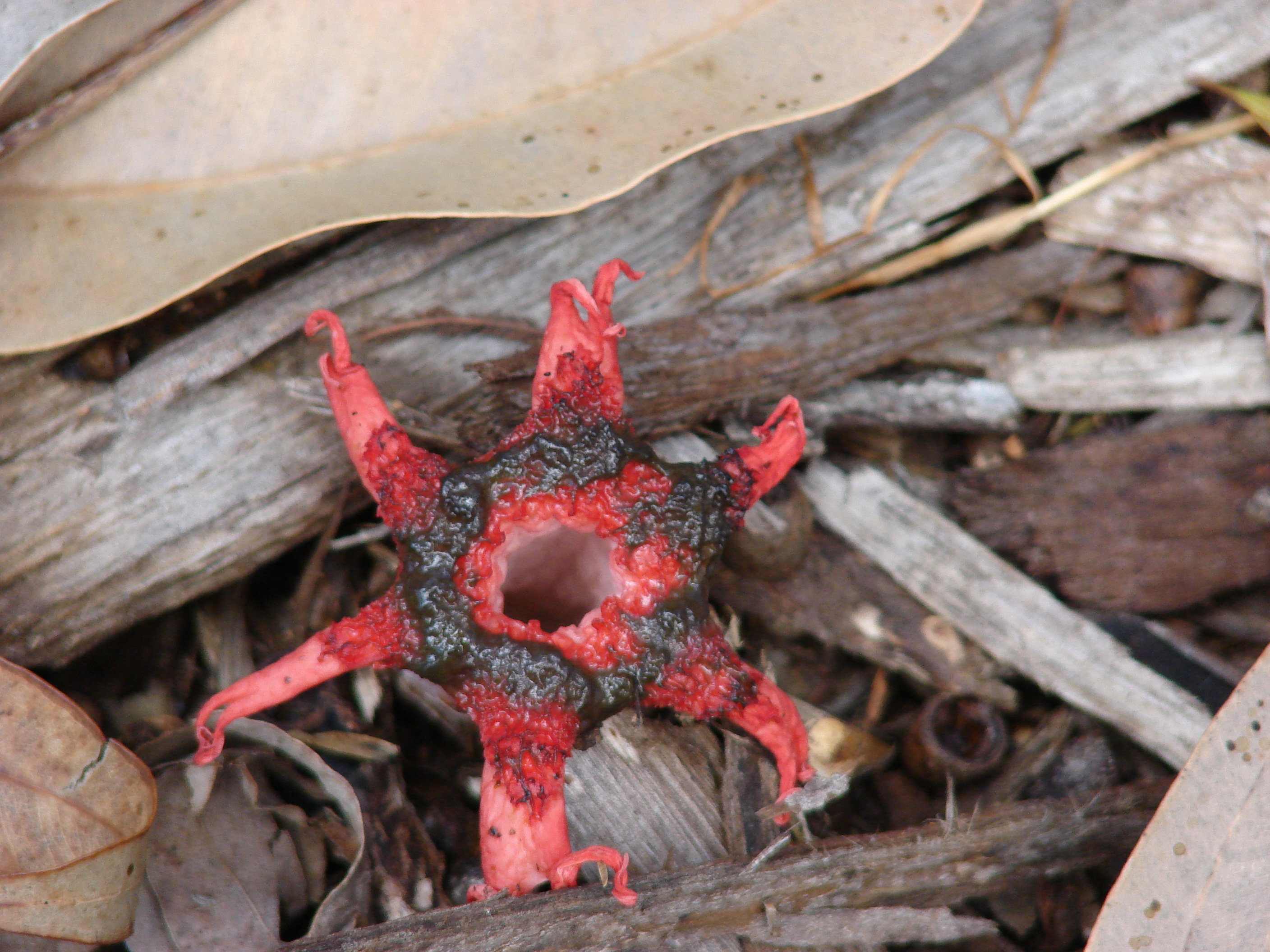 Aseroe rubra. Location: Maui, Olinda